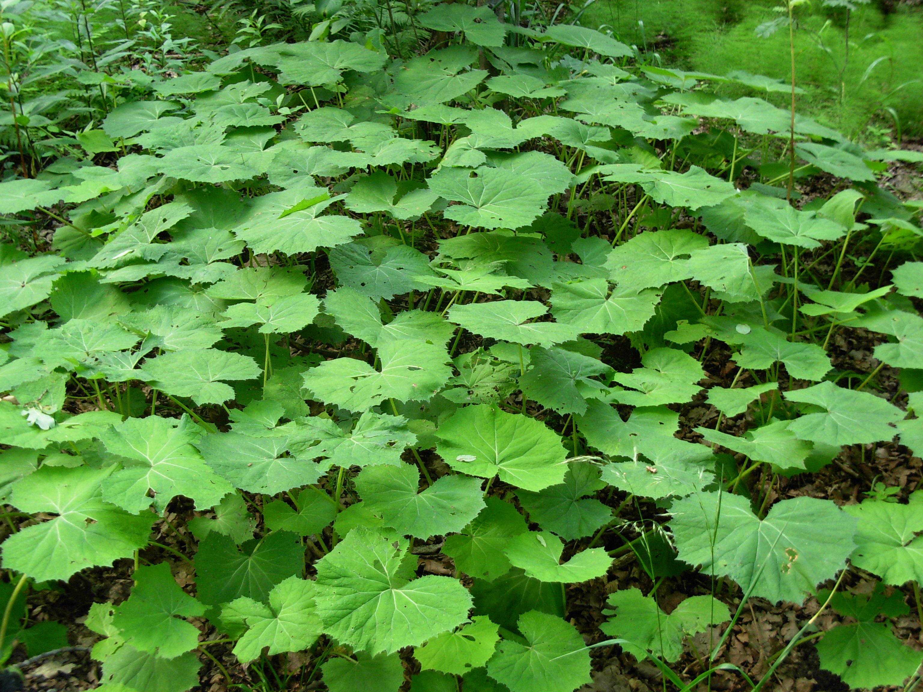 Petasites albus leaves.